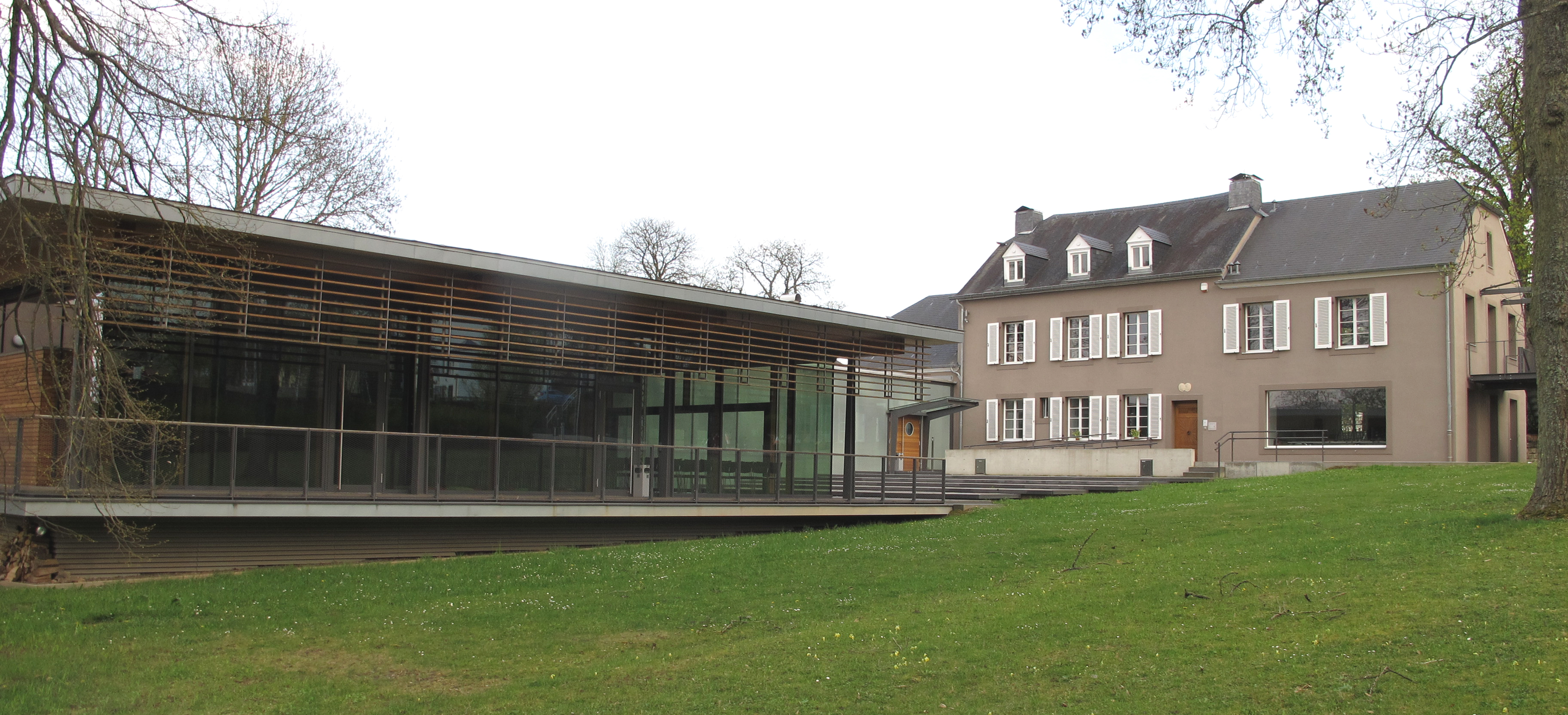 House of culture of Niederanven, Luxembourg